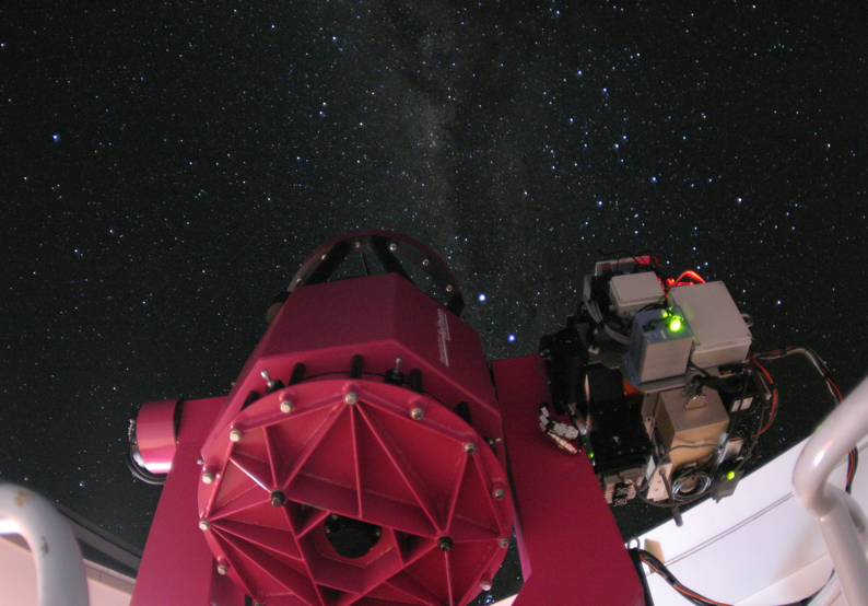 The REM telescope pointing at the core of the Milky Way